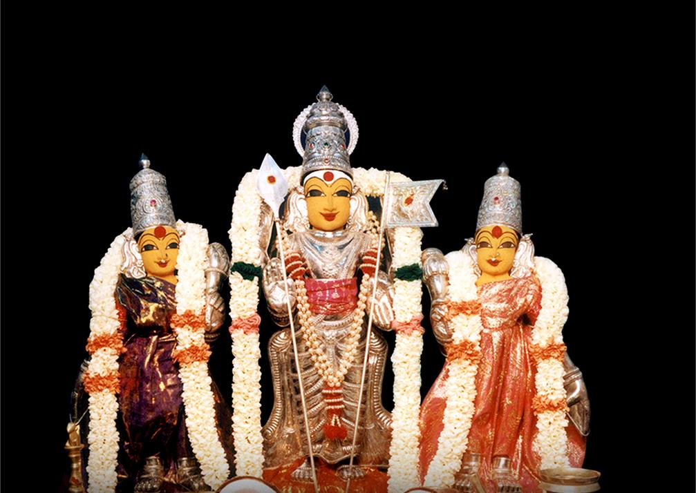 Ettampadai Thiruvallikeni Thirumurugan, Triplicane, Chennai, Triplicane